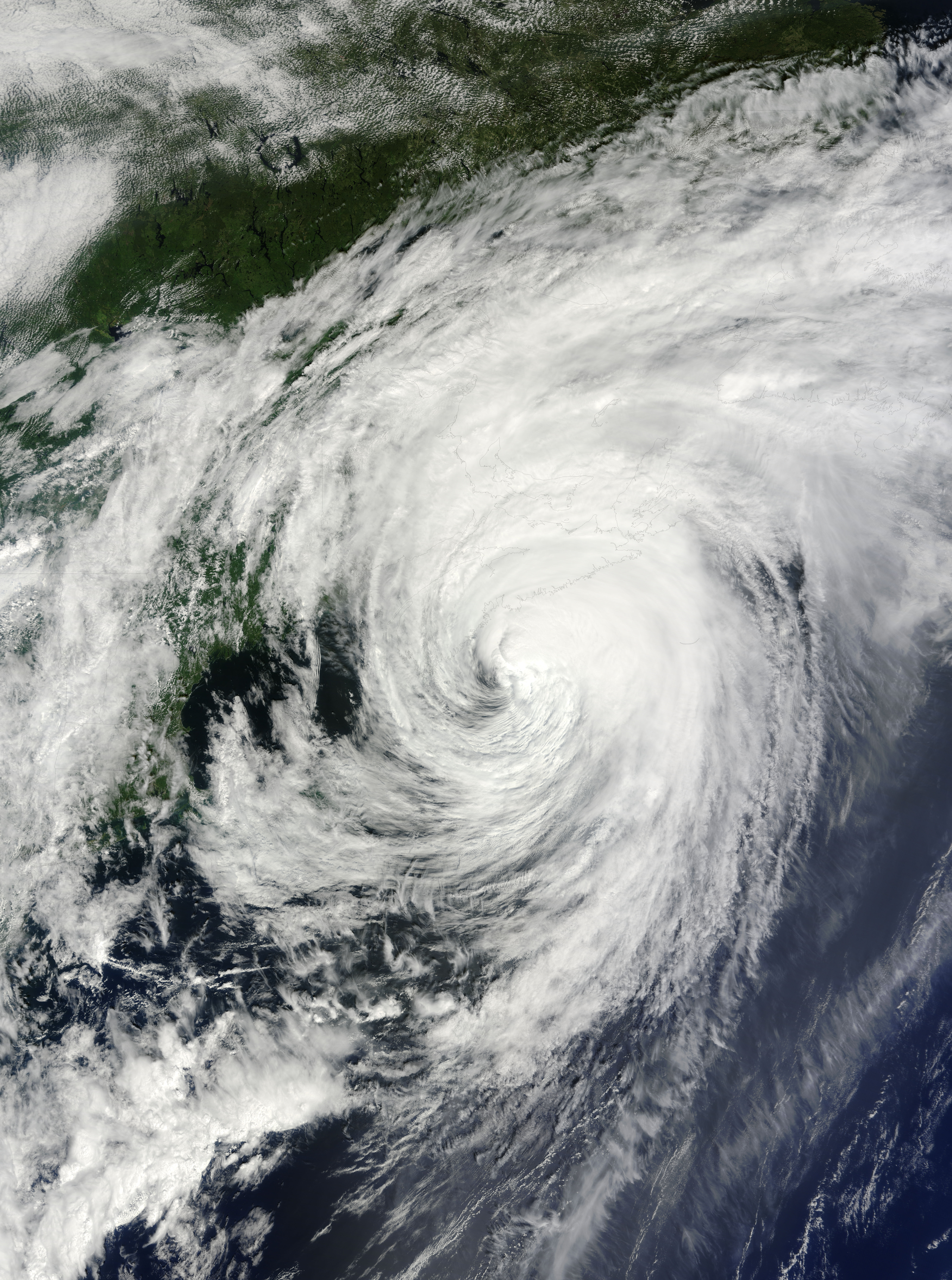 Hurricane Bill off the coast of Nova Scotia